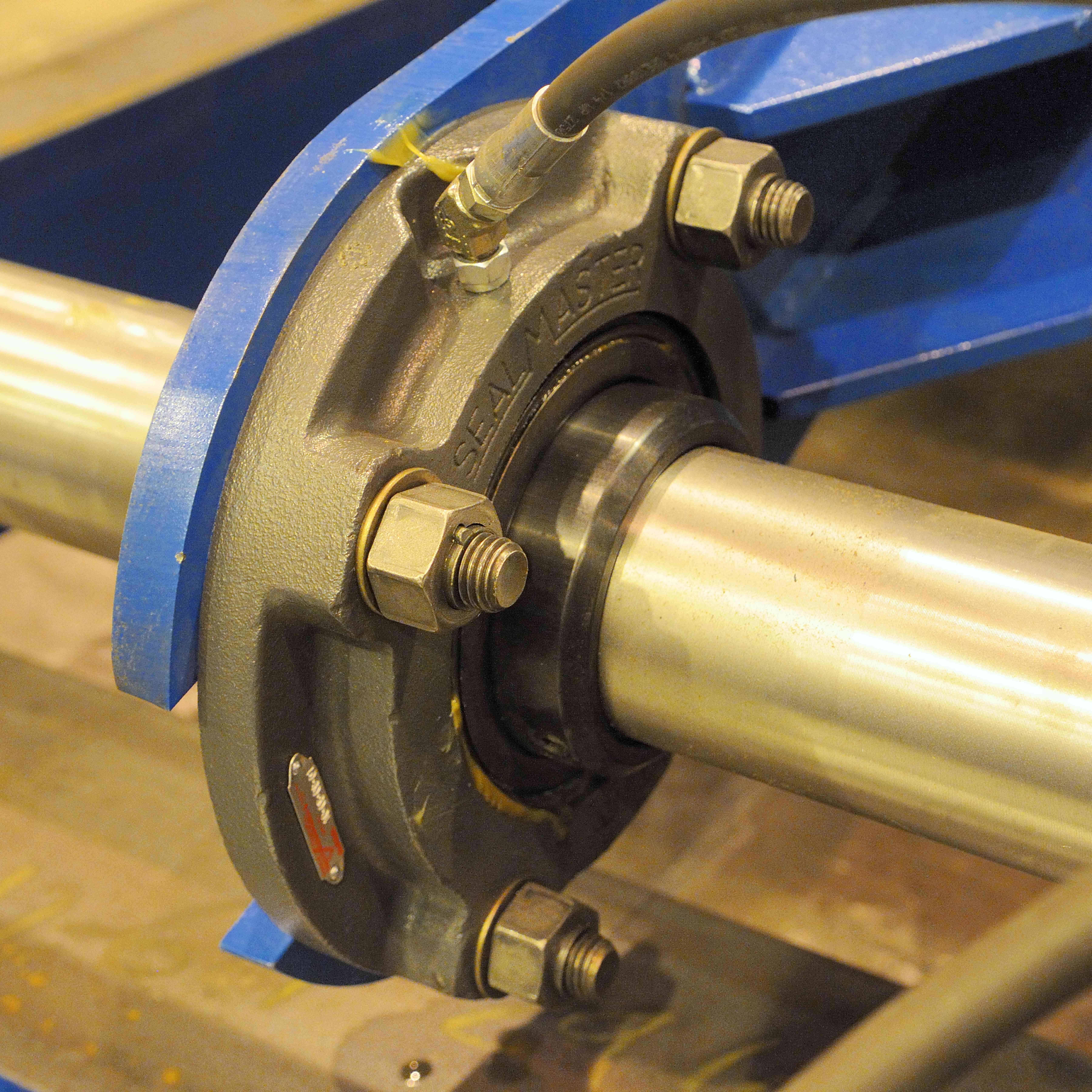 A security locnut threaded onto a bolt on vibratory equipment